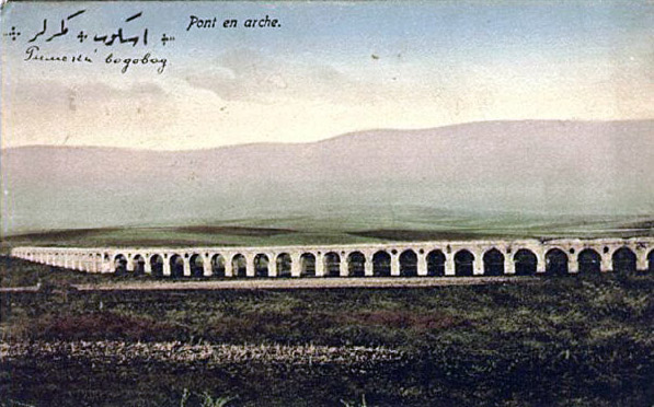 Colour postcard of the Skopje Aqueduct from the early 20th century